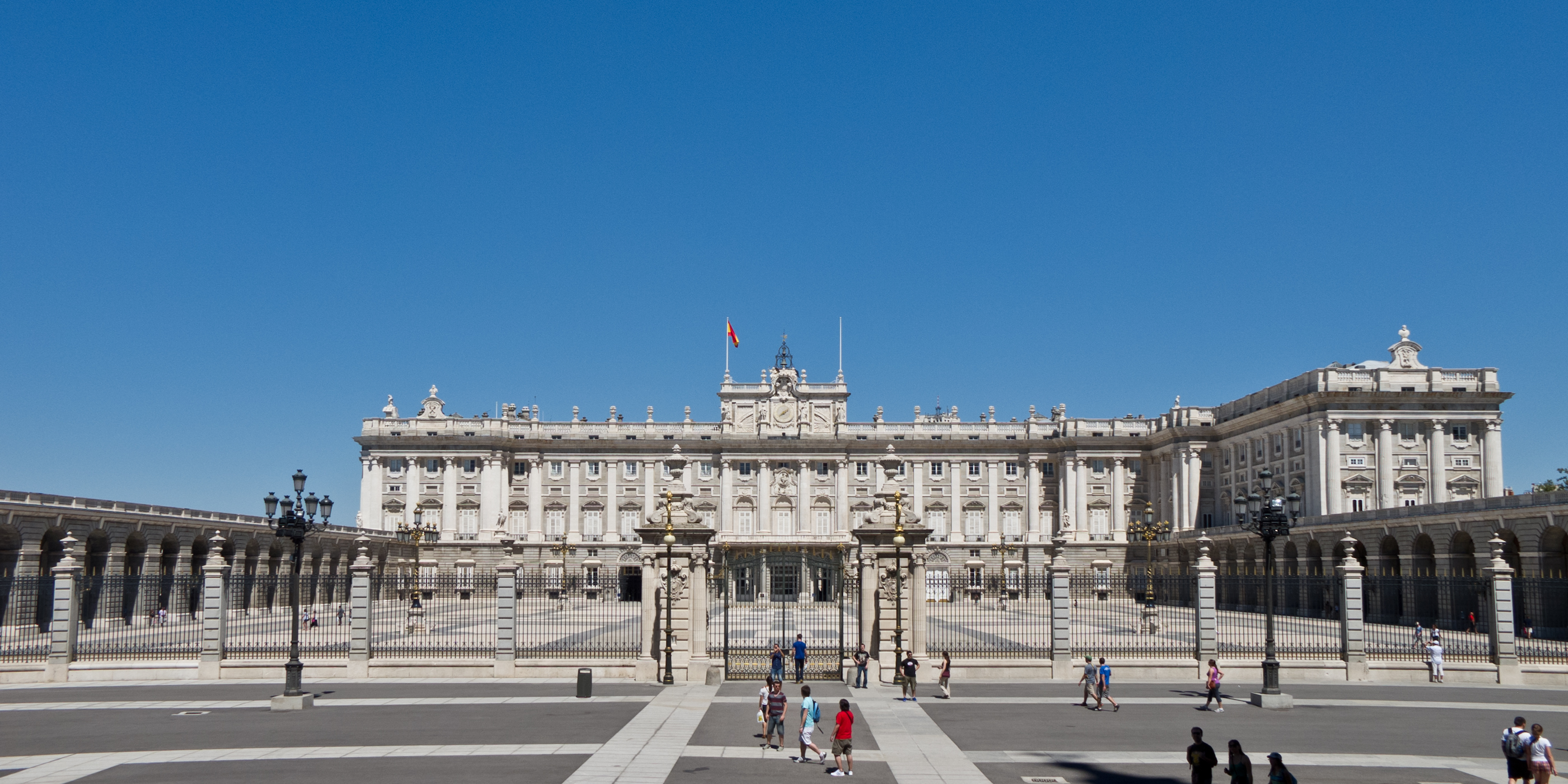 Royal Palace of Madrid, Spain.